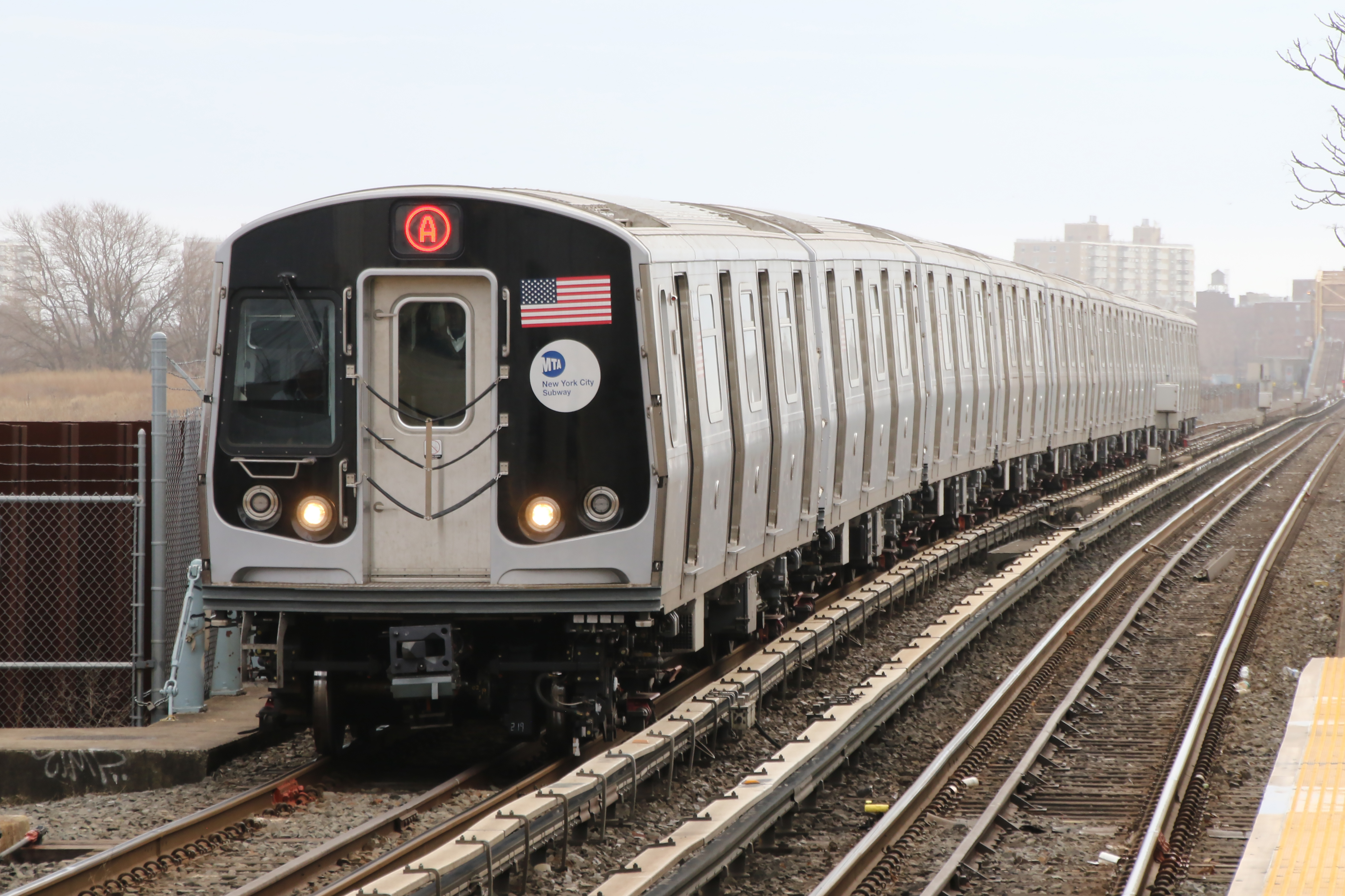 MTA NYC Subway A train of Bombardier R179 cars arriving Broad Channel.